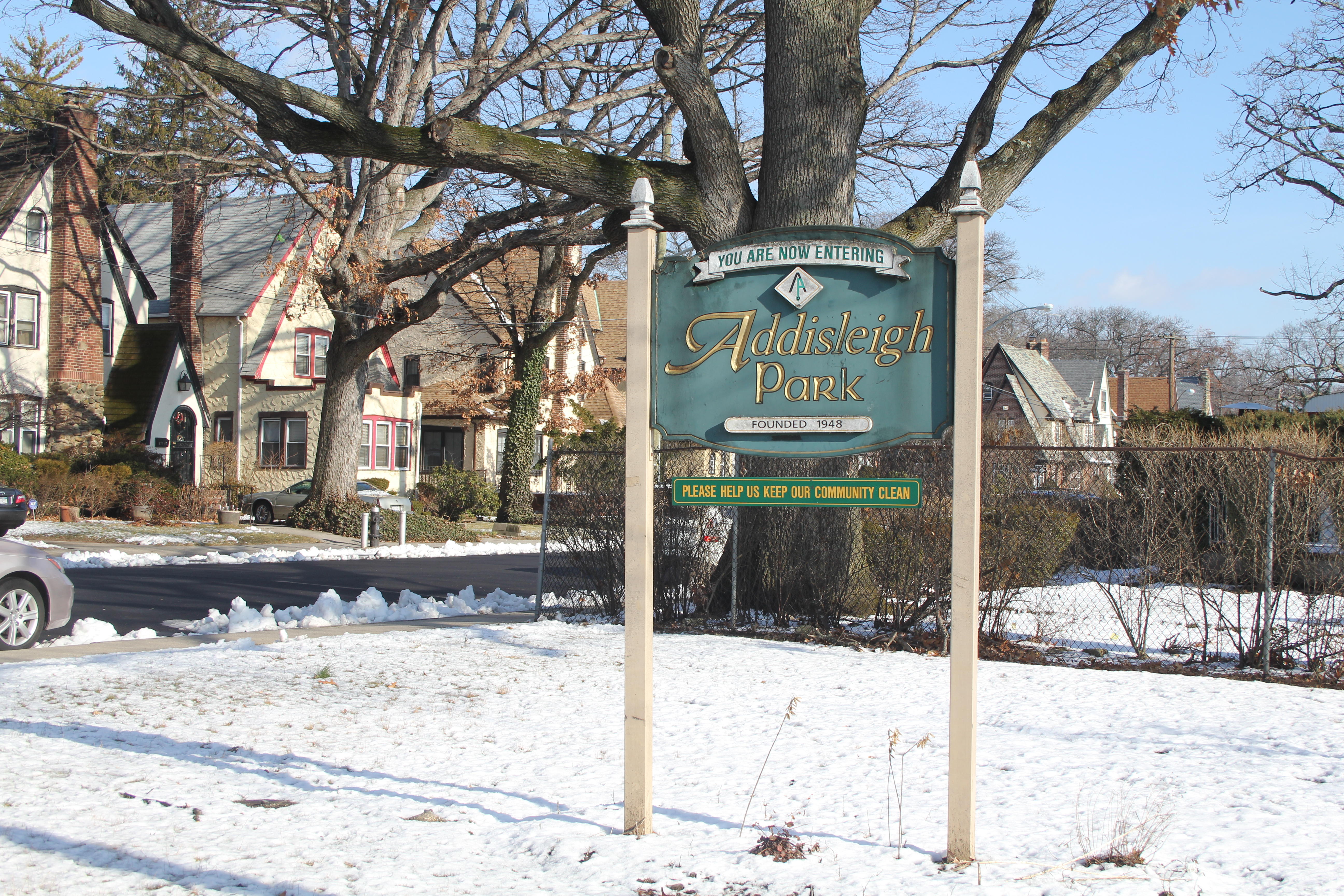 Welcome sign in the Addisleigh Park Historic District in St. Albans, Queens, New York City. Houses in the background are on the north side of Murdock Avenue west of 175th Street.